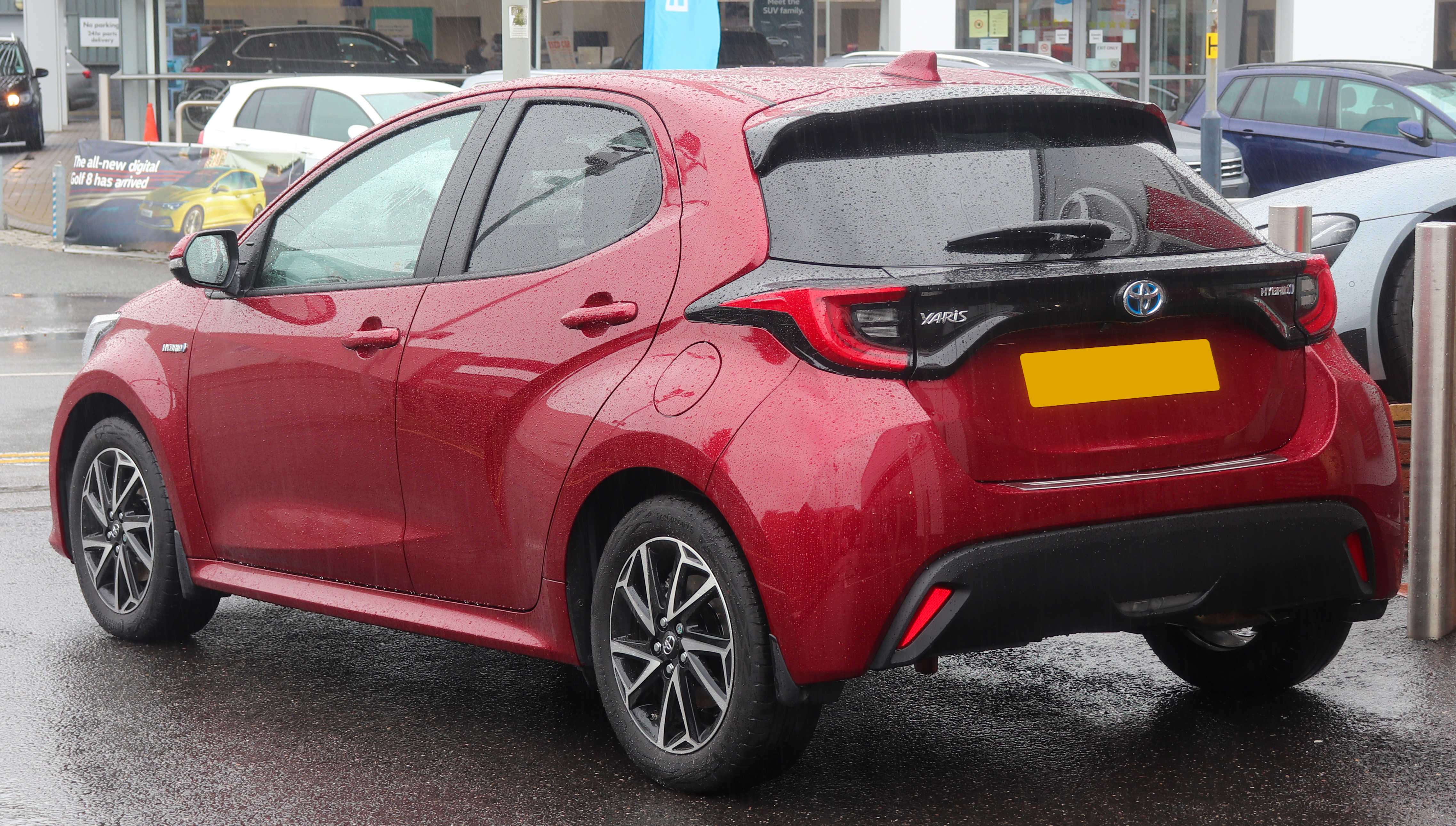 2020 Toyota Yaris Design HEV CVT 1.5 Rear Taken in Stratford-upon-Avon